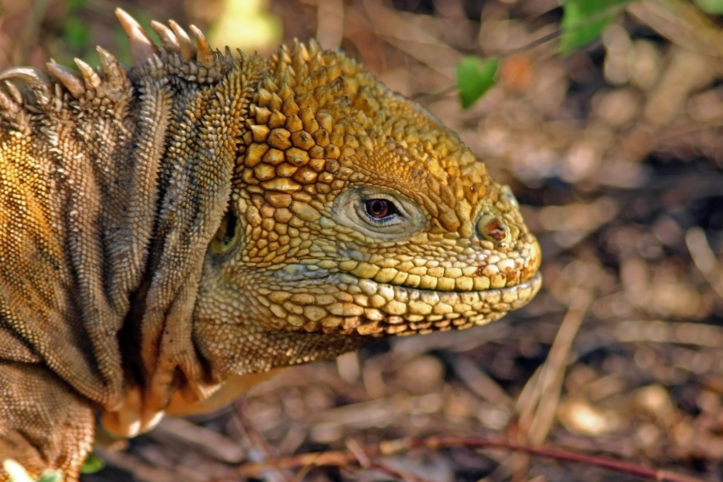 Galápagos land iguana (Conolophus subcristatus) near Espinoza Point on Fernandino Island, Galapagos Islands